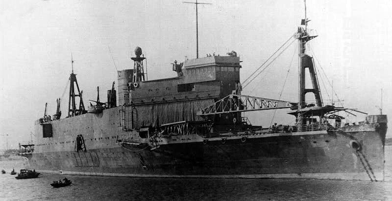 Imperial Japanese Army's landing craft carrier "Shinshū Maru", the worldwide first of its kind.